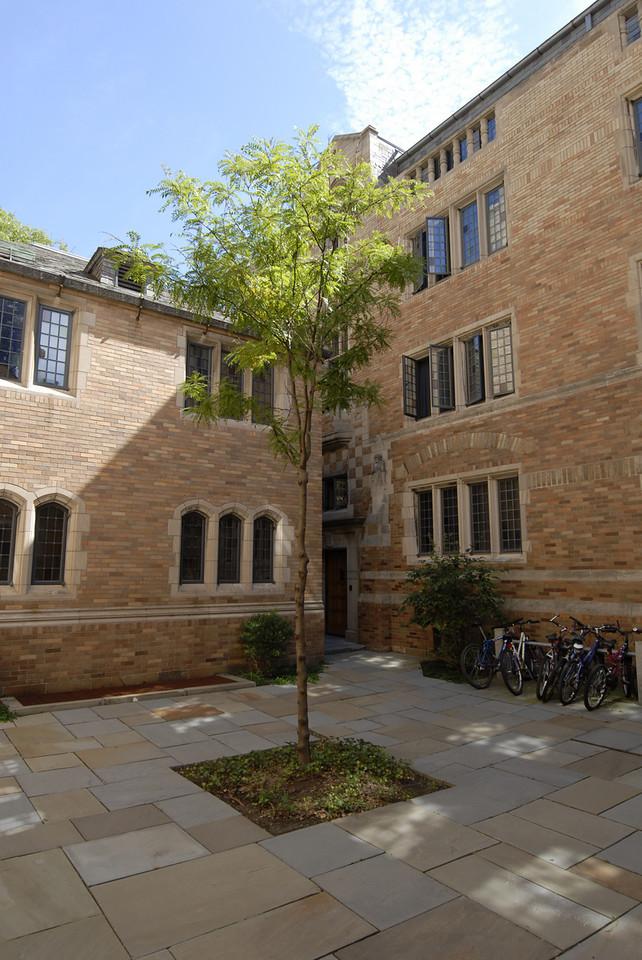 Stone Courtyard, Trumbull College, Yale University, New Haven, CT USA